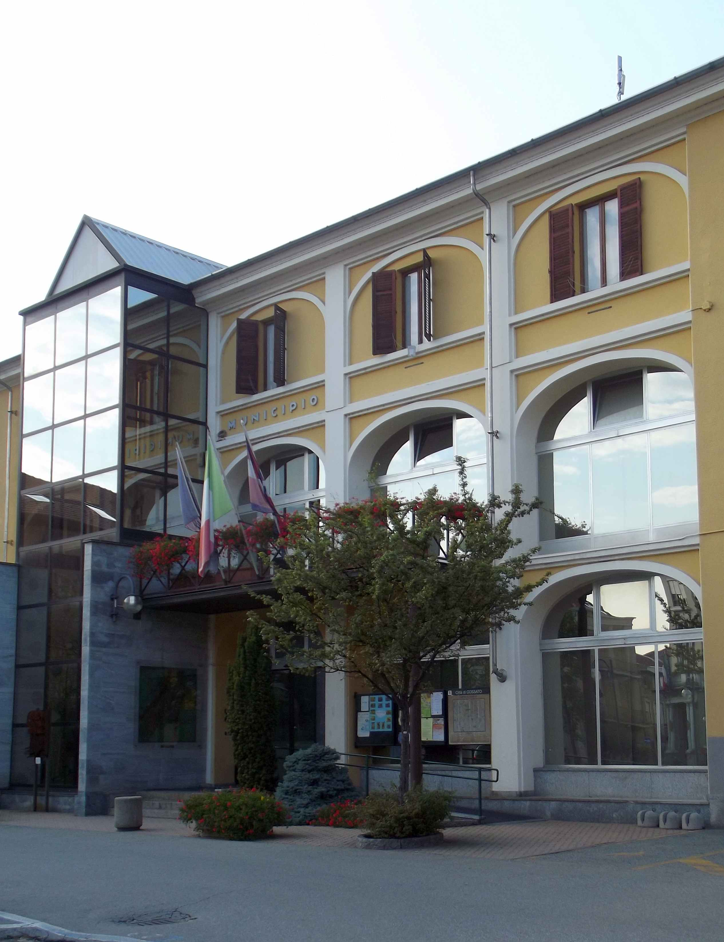 Cossato (BI, Italy): town hall